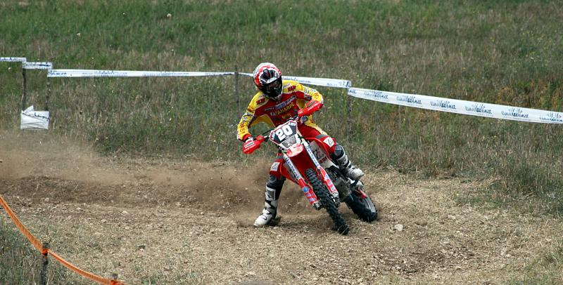 Mika Ahola riding his Honda E1 bike at the 2008 World Enduro Championship Grand Prix of Italy in Piediluco.